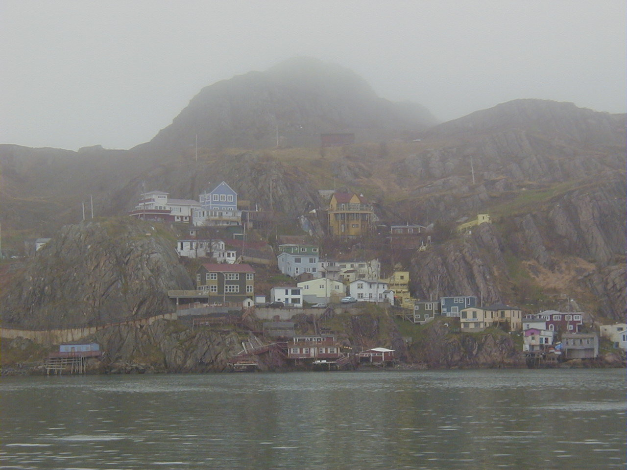 The Battery, St. John's Nfld.